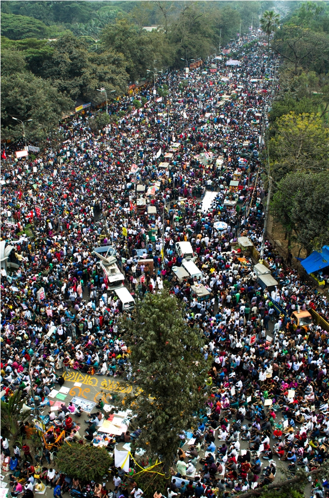 Movement demanding death sentence of Abdul Quader Mollah on 8th February, 2013 at Shahbag.